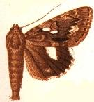 PLATE CC.